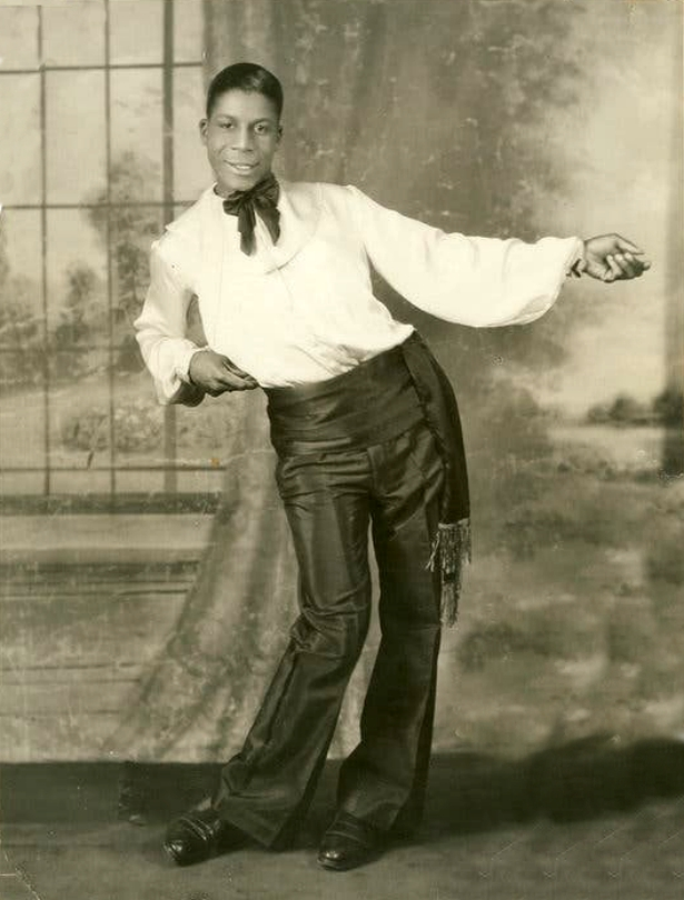 a picture of Earl "Snakehips" Tucker